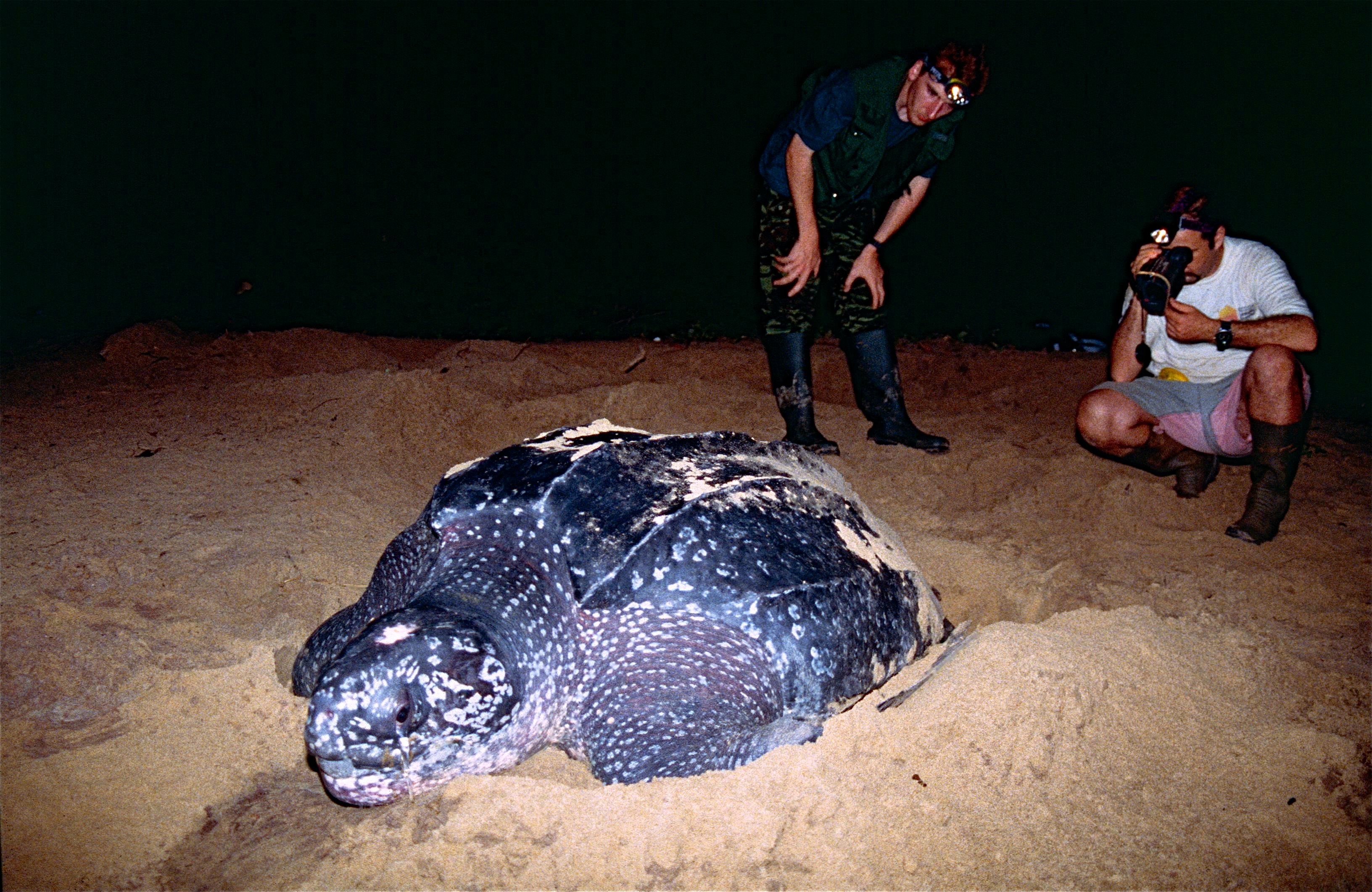 Plage des Hattes, Awala-Yalimapo, Guyane, FRANCE Scanned Slide from 1998